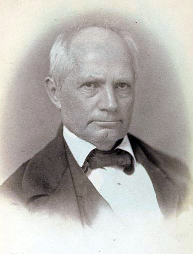 Miles Taylor, US Representative from Louisiana